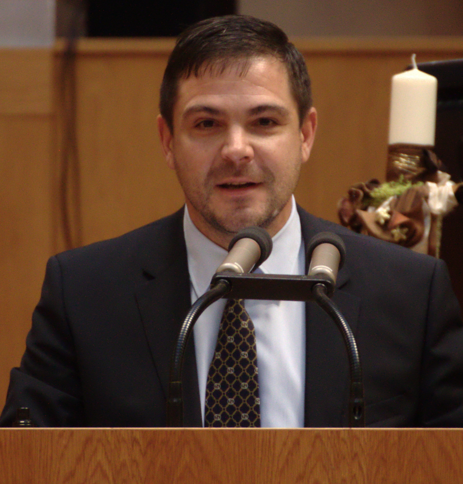 ČSSD (Social democrats) Prague politician Karel Březina during the 2nd session of the City council of Prague, December 2014